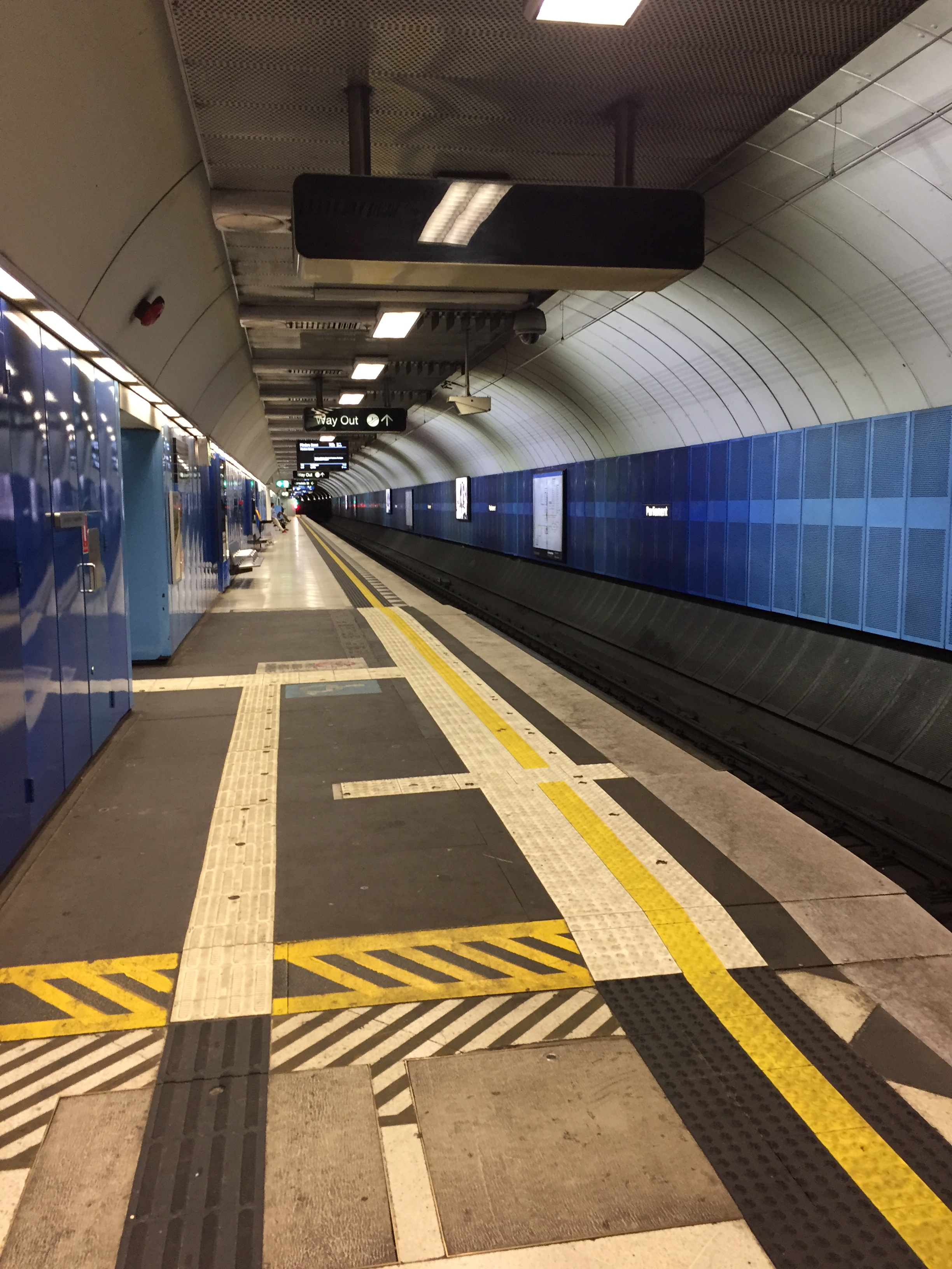 This is an image looking northward from the end of Platform 3 at Parliament Station in Melbourne, Victoria.